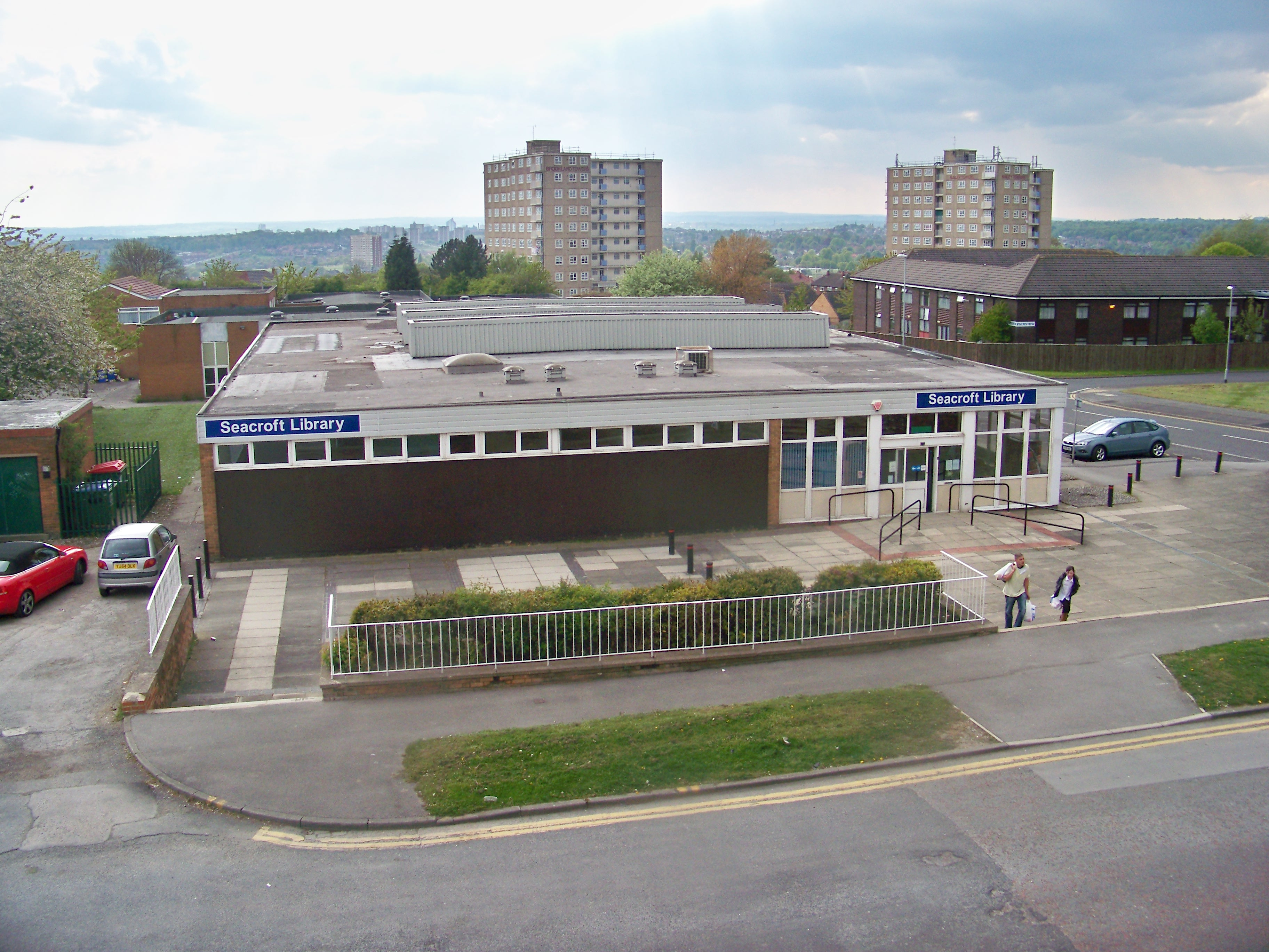 Seacroft library, as seen from the platform to the rear of the Seacroft Green Shopping Centre in Seacroft, Leeds, West Yorkshire. Taken on the afternoon of Thursday the 13th of May 2010.